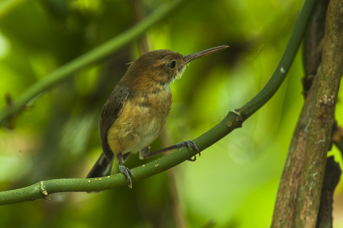 Long-billed Gnatcatcher - Panama_MG_2728